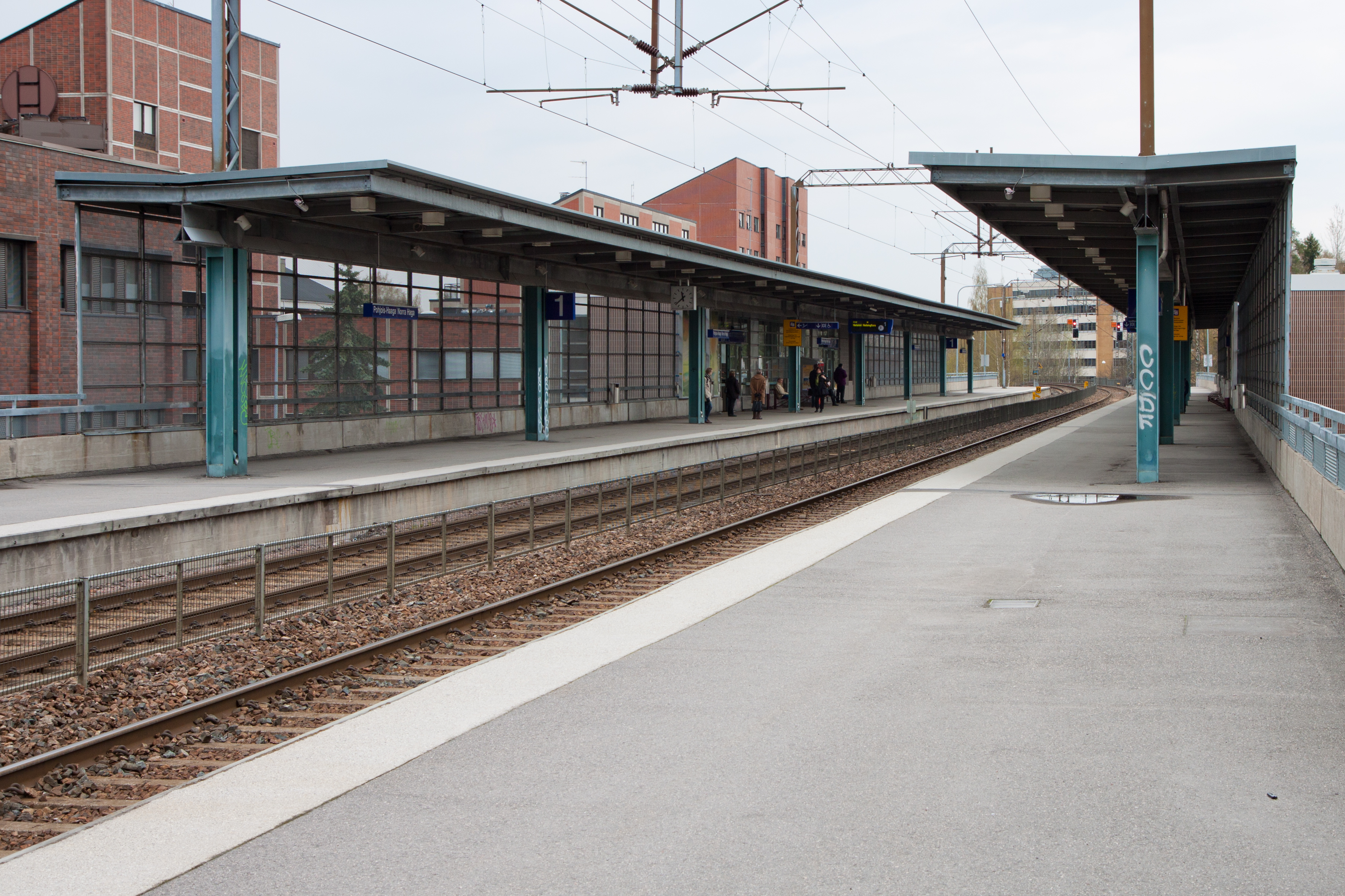 Pohjois-Haaga train station, looking northbound, towards Vantaankoski.